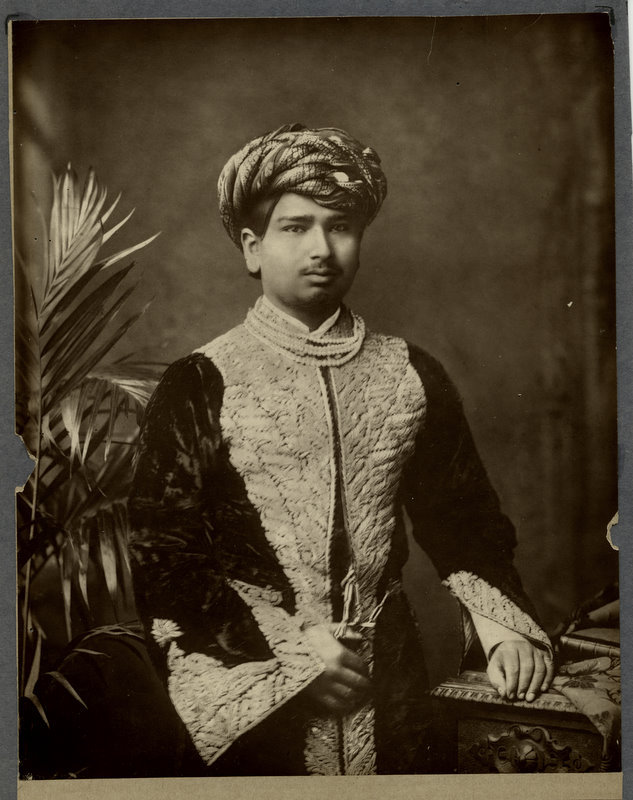 Vintage studio portrait of the Thakore of Wadhwan